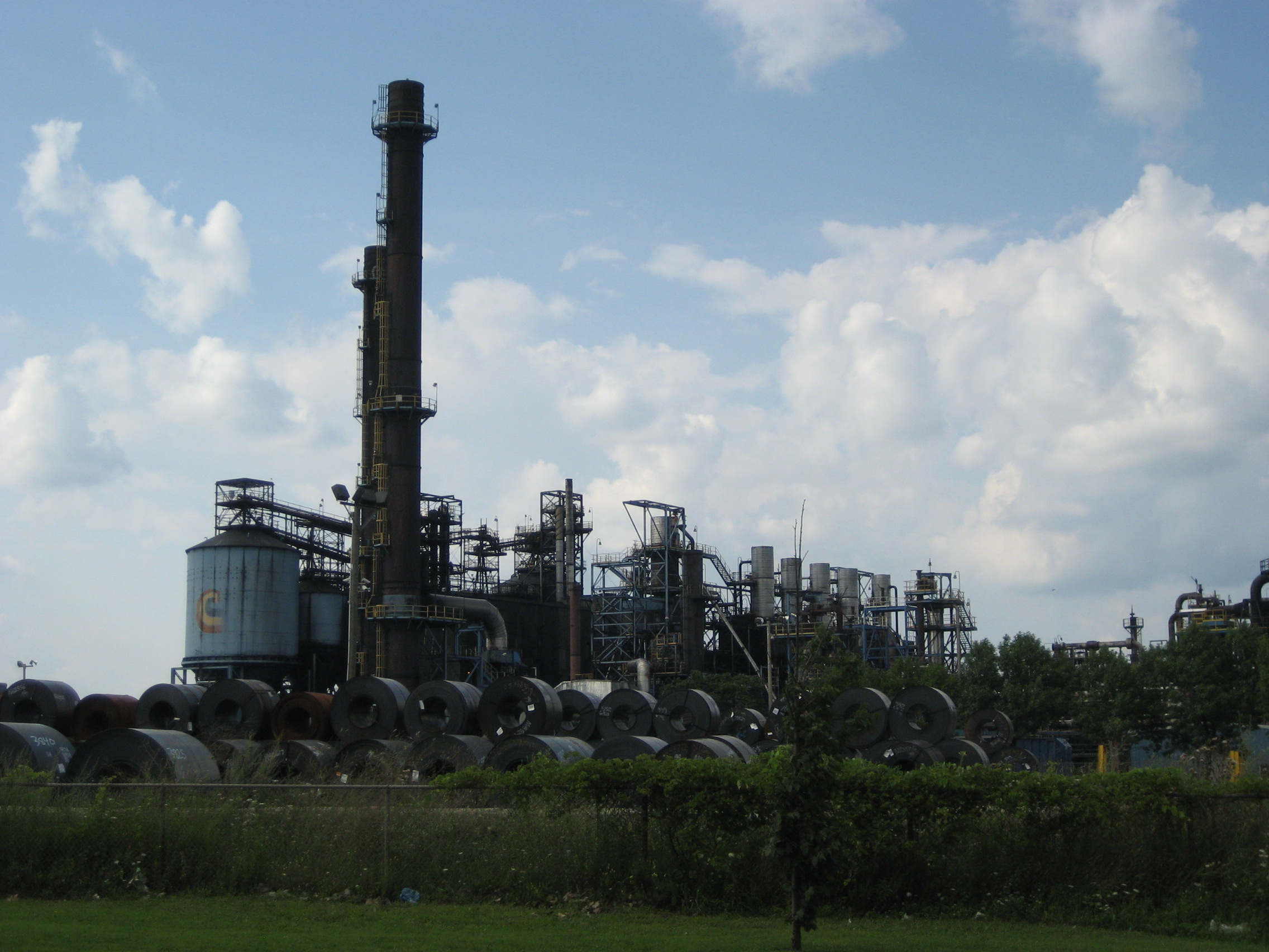 Columbian Chemicals plant, Parkdale Avenue North, Hamilton, Canada.